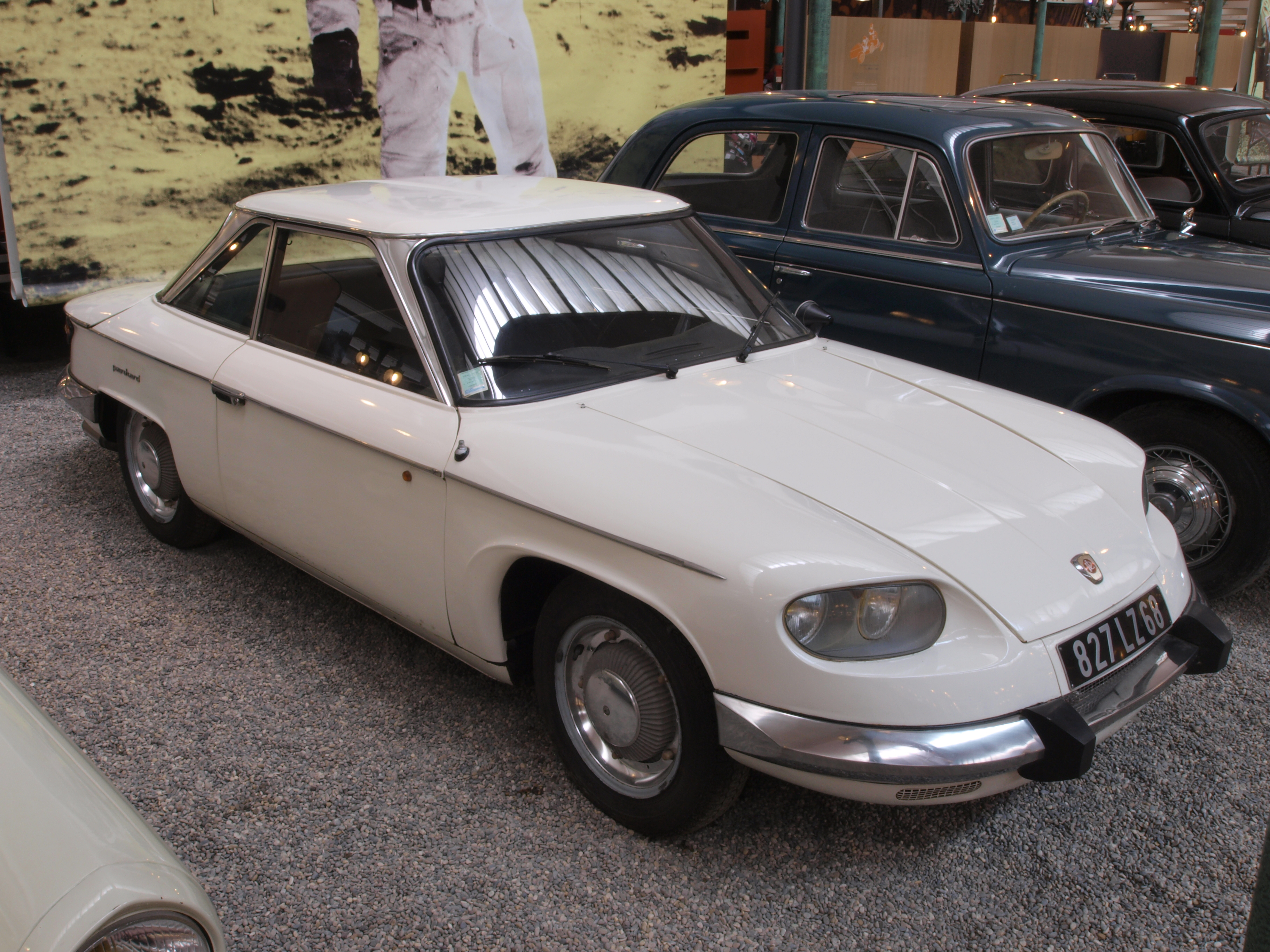 Photographed at the Cité de l’Automobile, France. OLYMPUS DIGITAL CAMERA